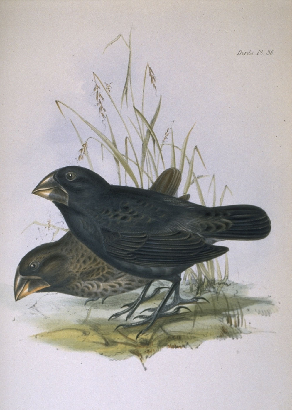 Large Ground-finch (Geospiza magnirostris), one of Darwin's finches. Charles and Chatham Islands, Galapagos Archipelago.